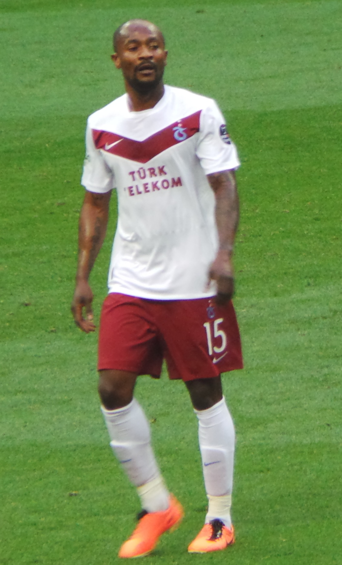 Didier Zokora with Trabzon